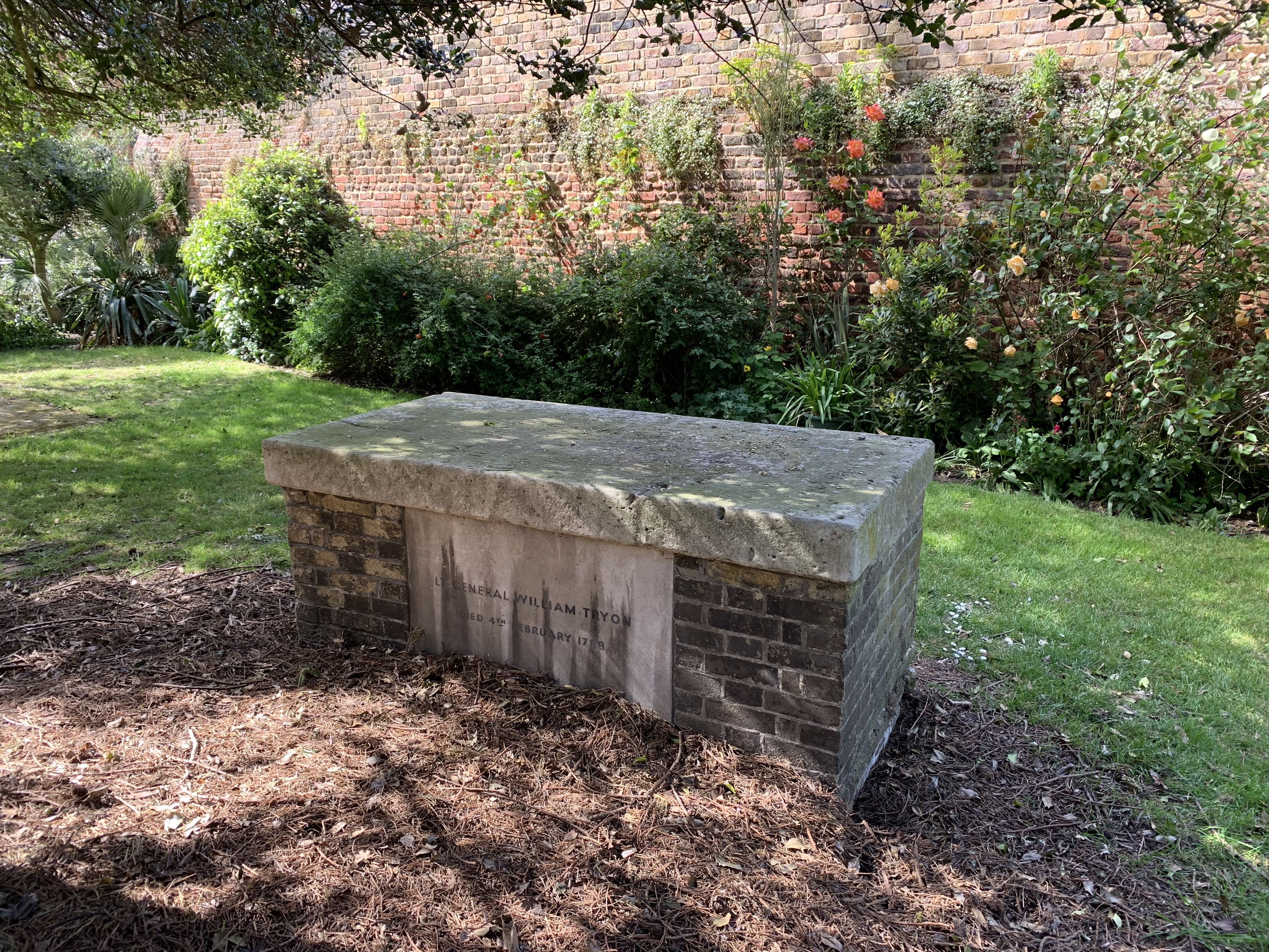 Tomb of William Tryon at St. Mary's Church, Twickenham, UK